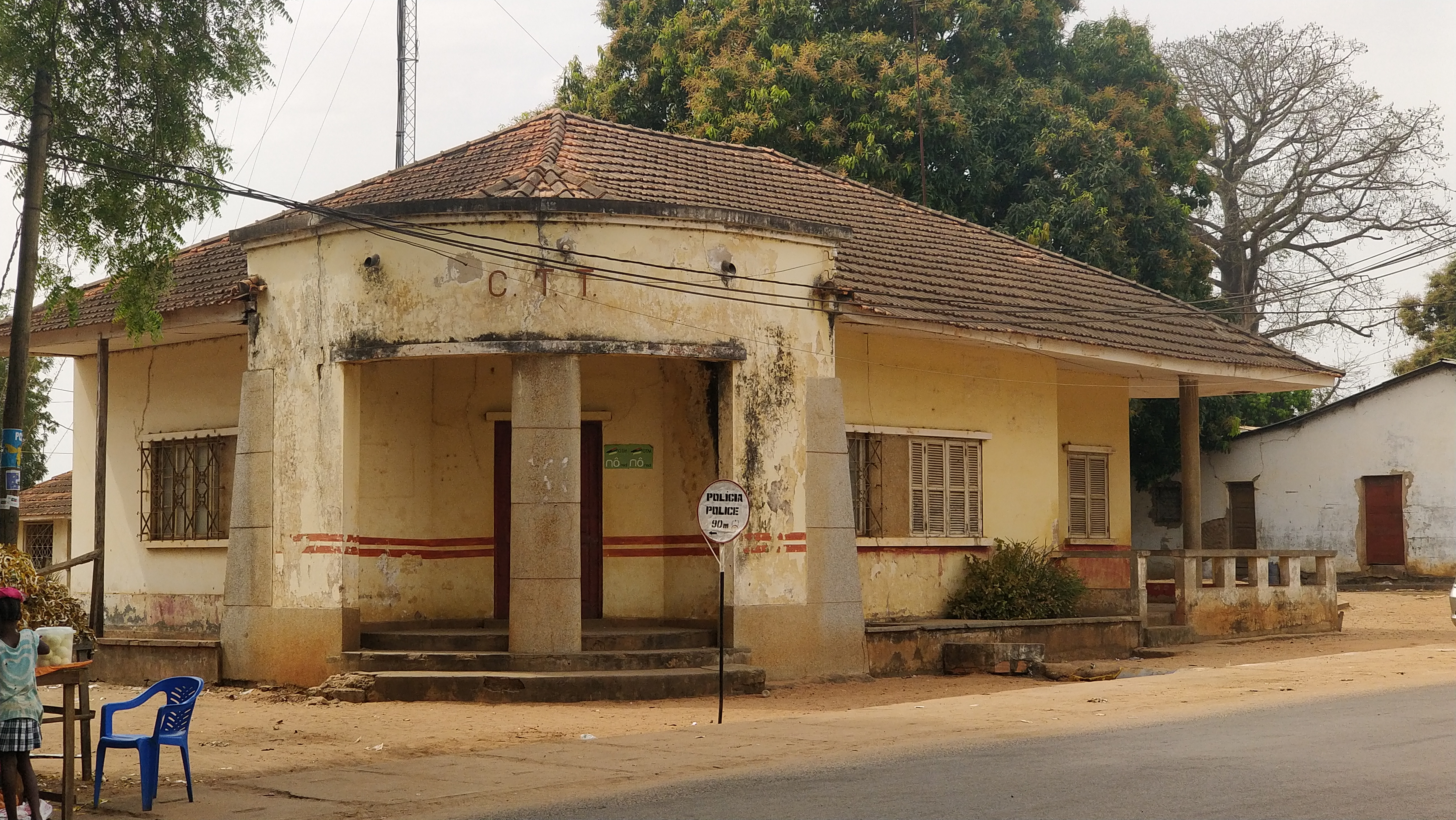 Post office São Domingos, Guinea-Bissau